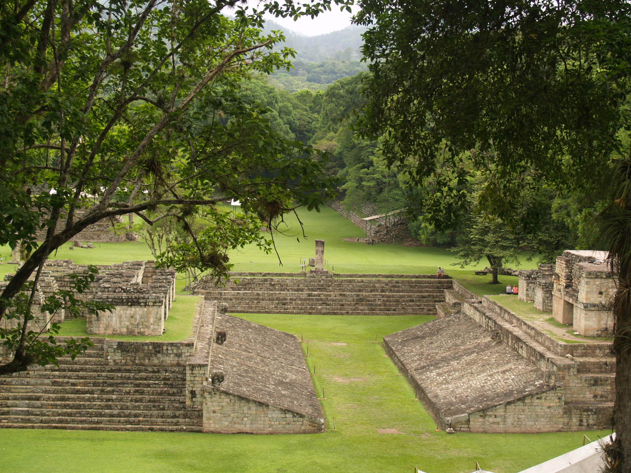 Ball Court - Copan Ruinas, Honduras